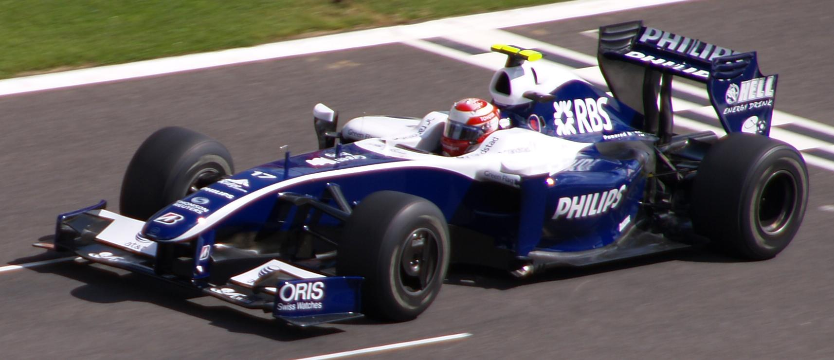 Kazuki Nakajima driving for WilliamsF1 at the 2009 Belgian Grand Prix.